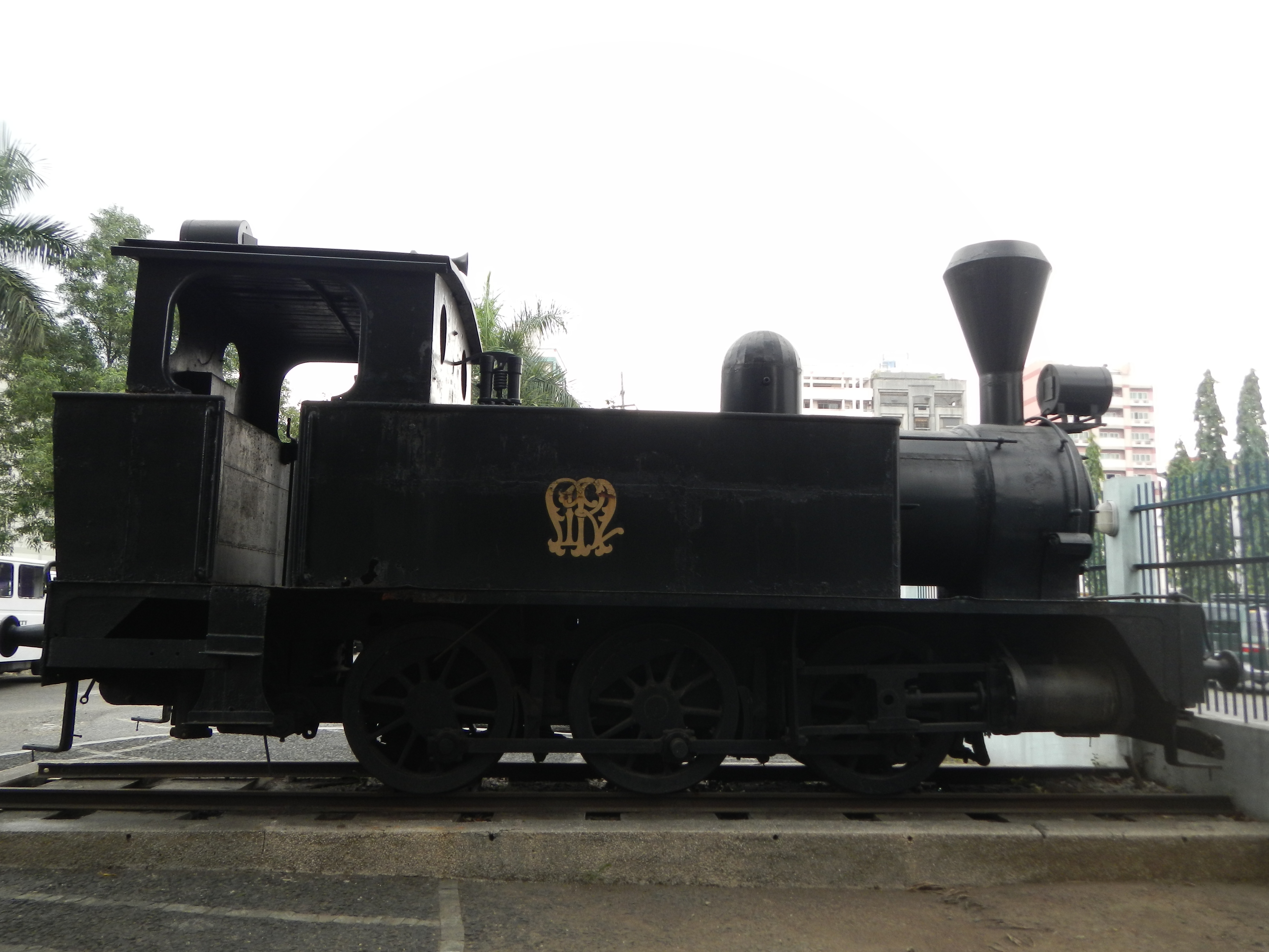 Tutuban railway station[1]is the main train station of the Philippine National Railways (PNR) and the main train station of the city of Manila in the Philippines. The name refers to two stations: the original Tutuban station, which today forms part of the Tutuban Centermall, and the PNR Executive Building, which houses PNR offices and serves as the current terminus of all PNR services. Philippine National Railways[2]or PNR, is a state-owned railway company in the Philippines, operating a single line of track on Luzon. As of 2010, it operates one commuter rail service in Metro Manila and a second in the Bicol Region. PNR restored its intercity service to the Bicol region in 2011. The Bicol Express and Isarog Express run on a daily basis between Manila and Ligao.